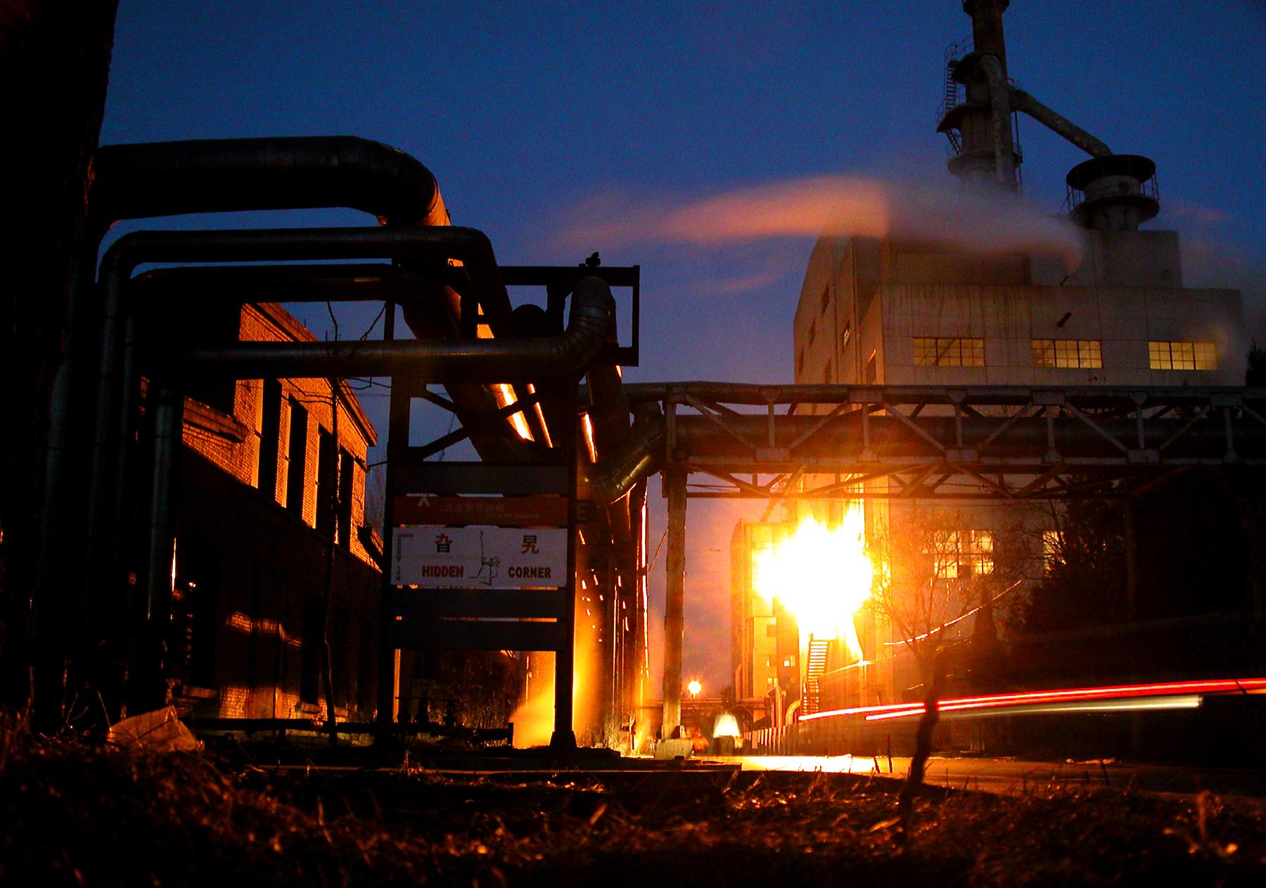 Industrial area in Beijing at night. The area around this factory had a primordial feeling. The English signs point to cafes in the area that industry have vacated in the Dashanzi area of Beijing.